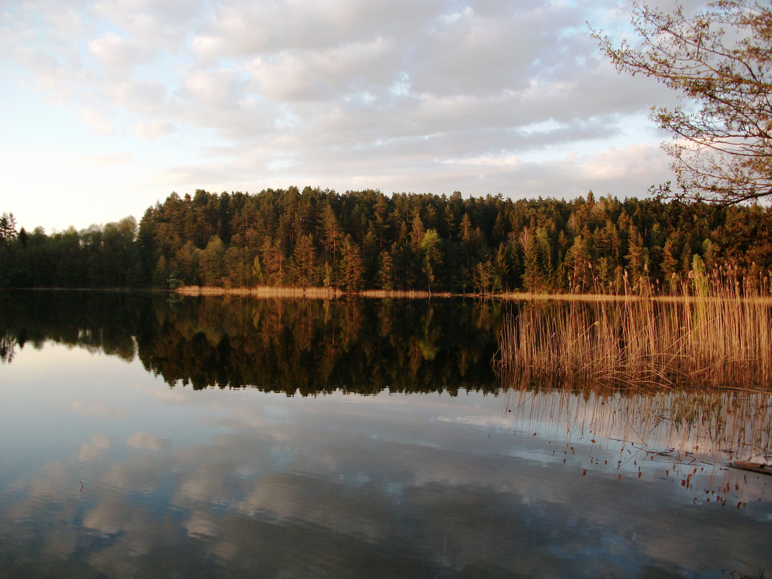 Balduk Lake, Miadziel district, Belarus